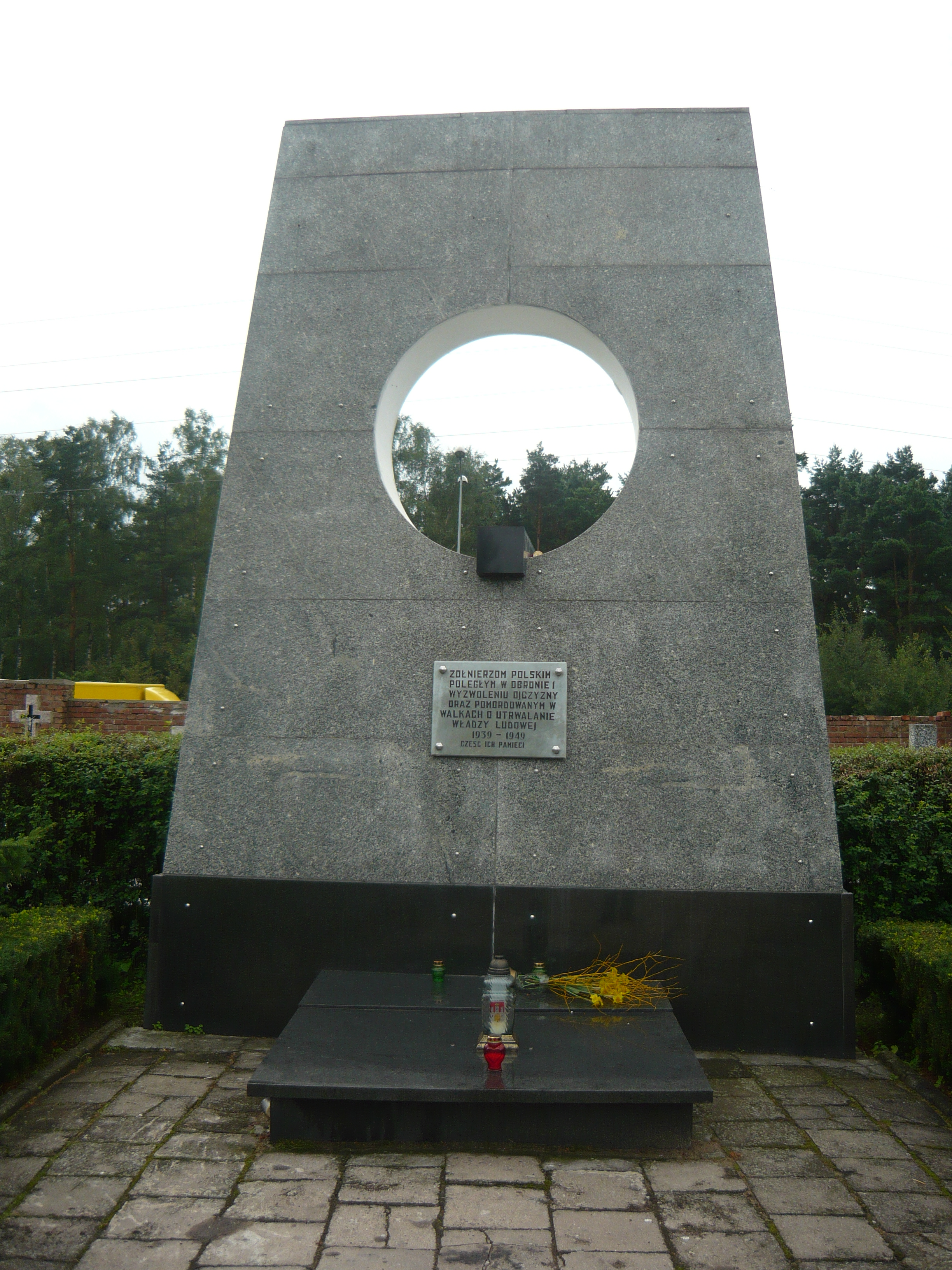 The monument of polish soliders who fought for polish independence during the II world war in the place where rest polish soliders.